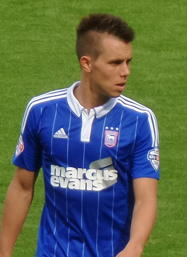 Jonas Knudsen playing on his Ipswich Town home debut against Sheffield Wednesday on 15 August 2015